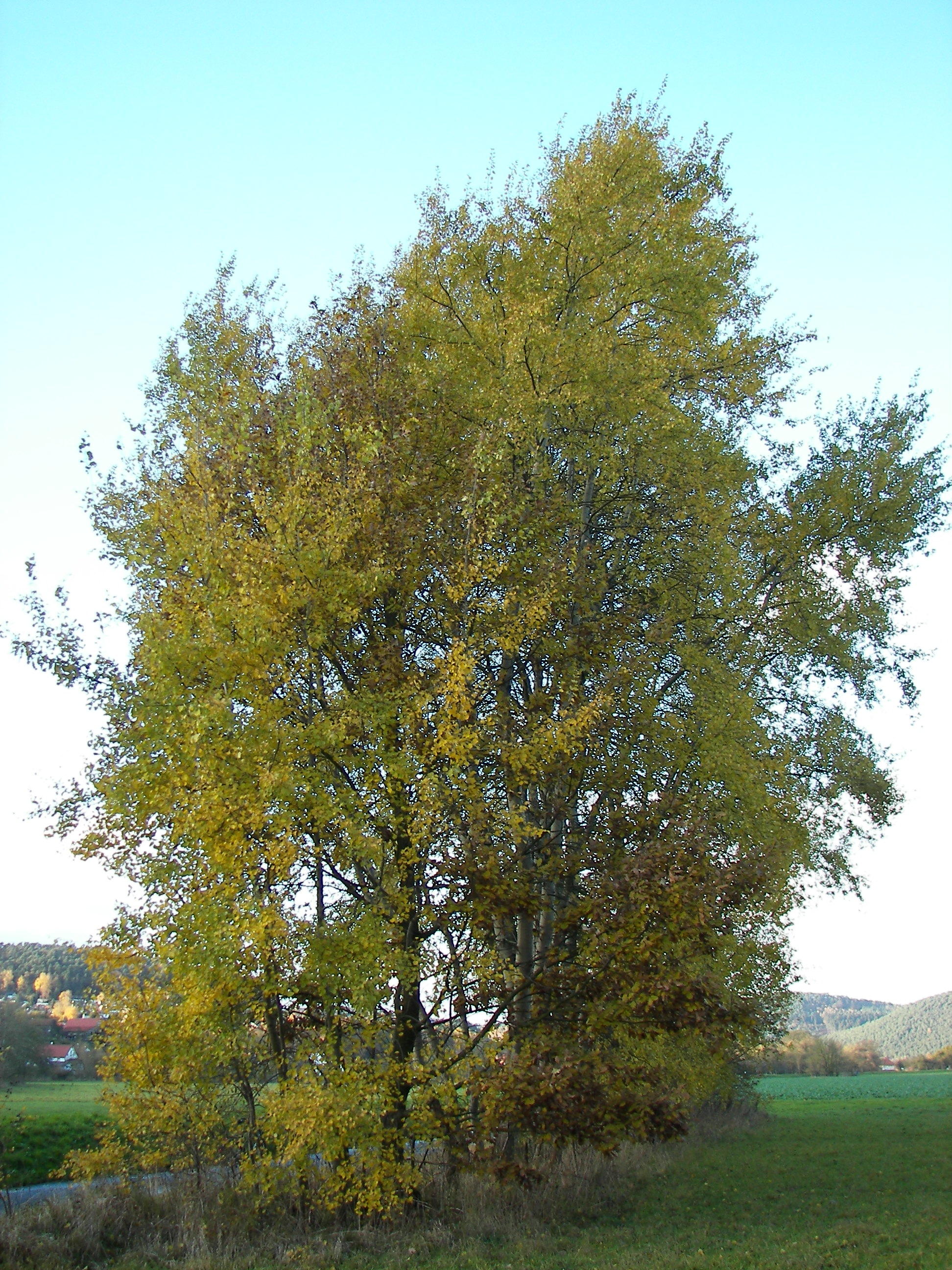 Aspen (Populus tremula) near Marburg, Hesse, Germany